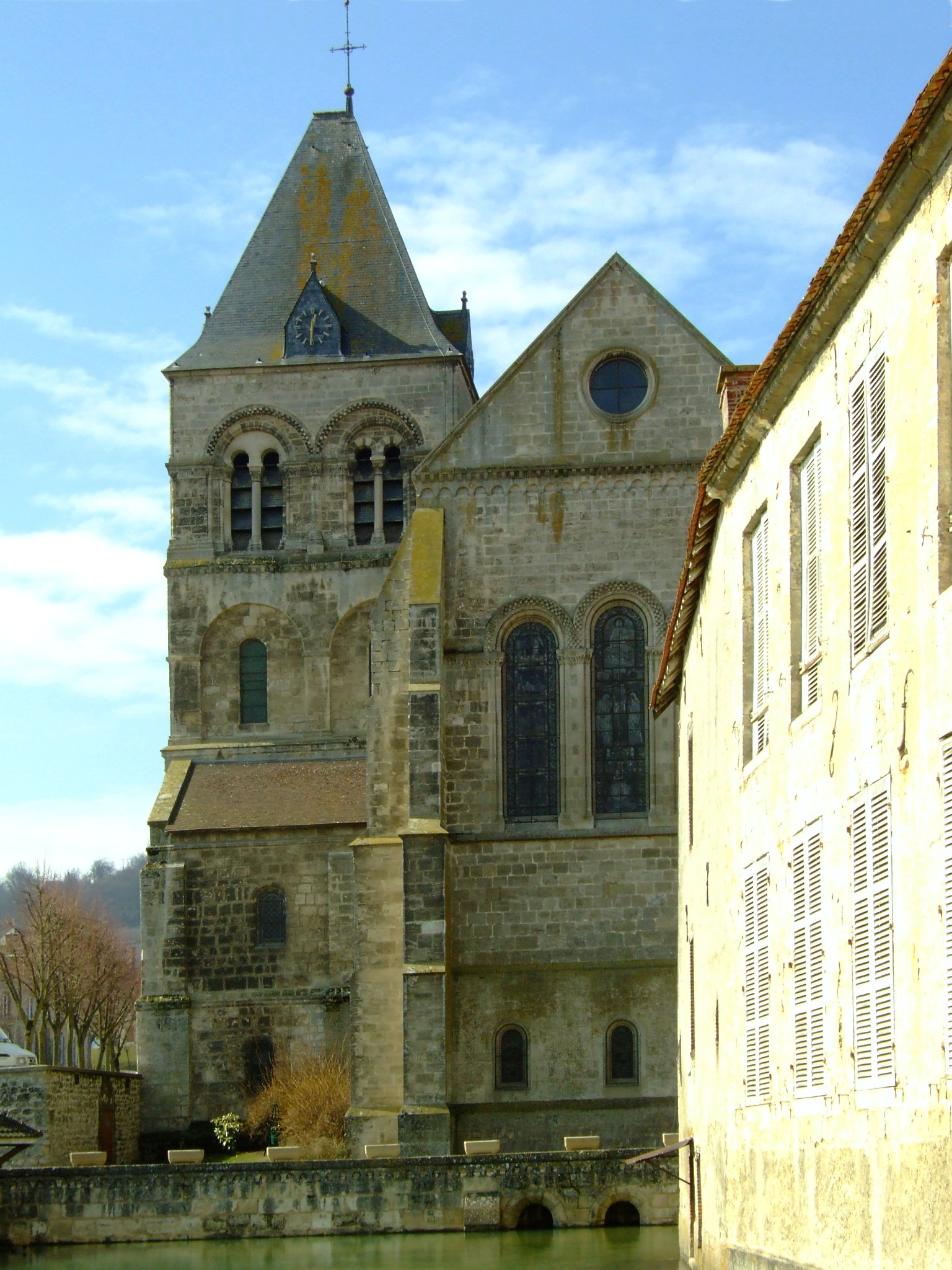 Saint Martin Church and river, Vertus (Marne - France)